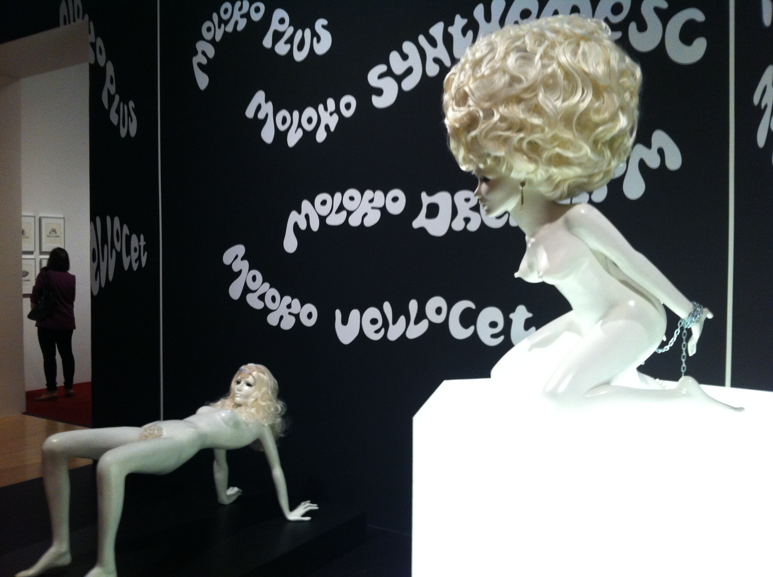 Stanley Kubrick exhibit at Los Angeles County Museum of Art